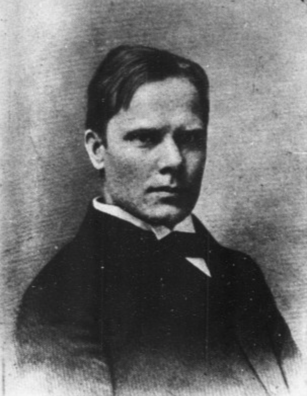 William Sulzer in The Broad Ax newspaper December 23, 1922